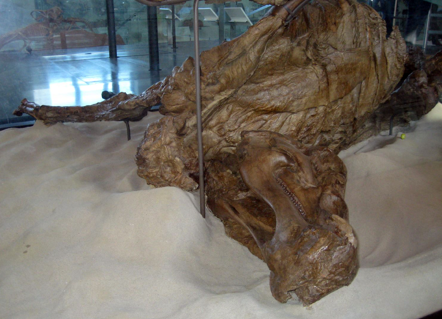 Fossil of a mummified Edmontosaurs annectens (AMNH#5060)